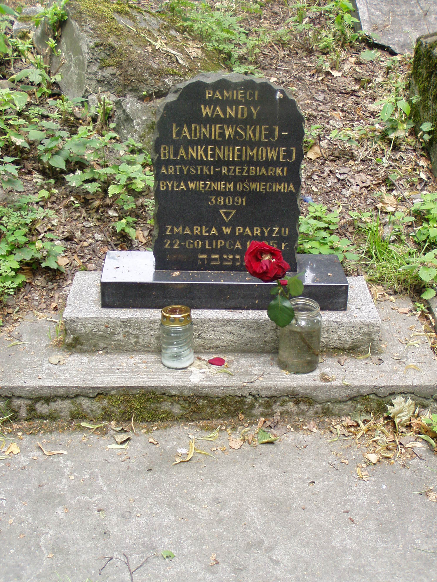 Symbolic grave of Wanda Ładniewska-Blankenheimowa in New Jewish Cemetery in Kraków